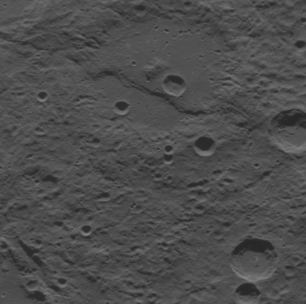 Oblique view of Balagtas crater on Mercury. MESSENGER Narrow Angle Camera image. North is at right. Width is approximately 184 km at bottom. Emission Angle: 29.9 Incidence Angle: 73.1 Latitude: -22.8 Longitude: 347.8 Phase Angle: 102.9